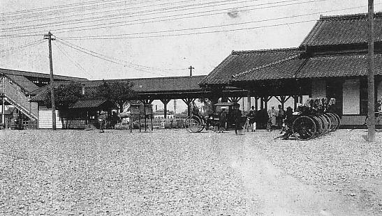 Omuta Station in Meiji and Taisho eras